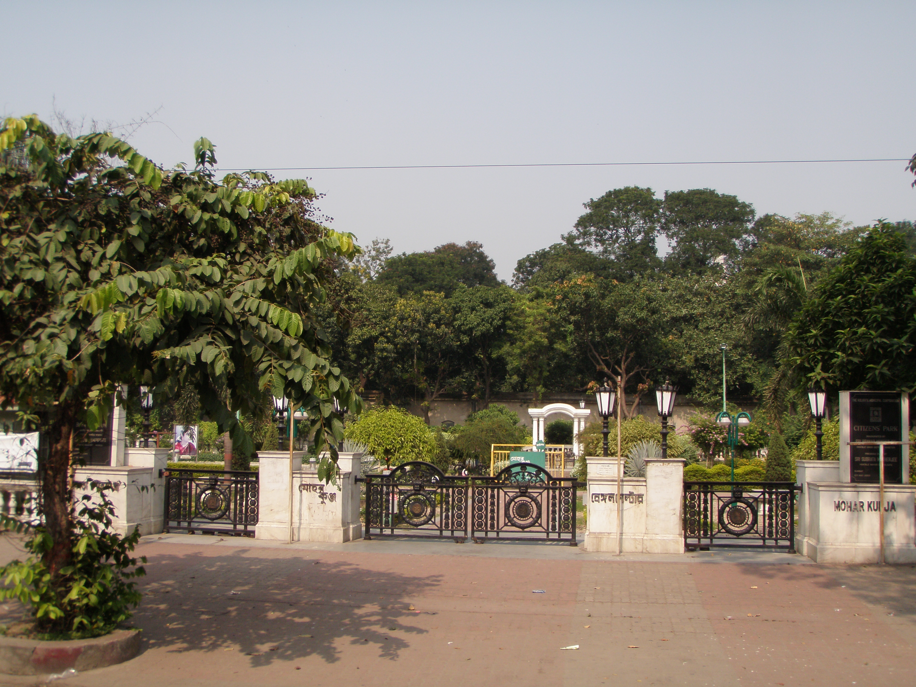 This media file is uploaded with India loves Wikipedia event. OLYMPUS DIGITAL CAMERA